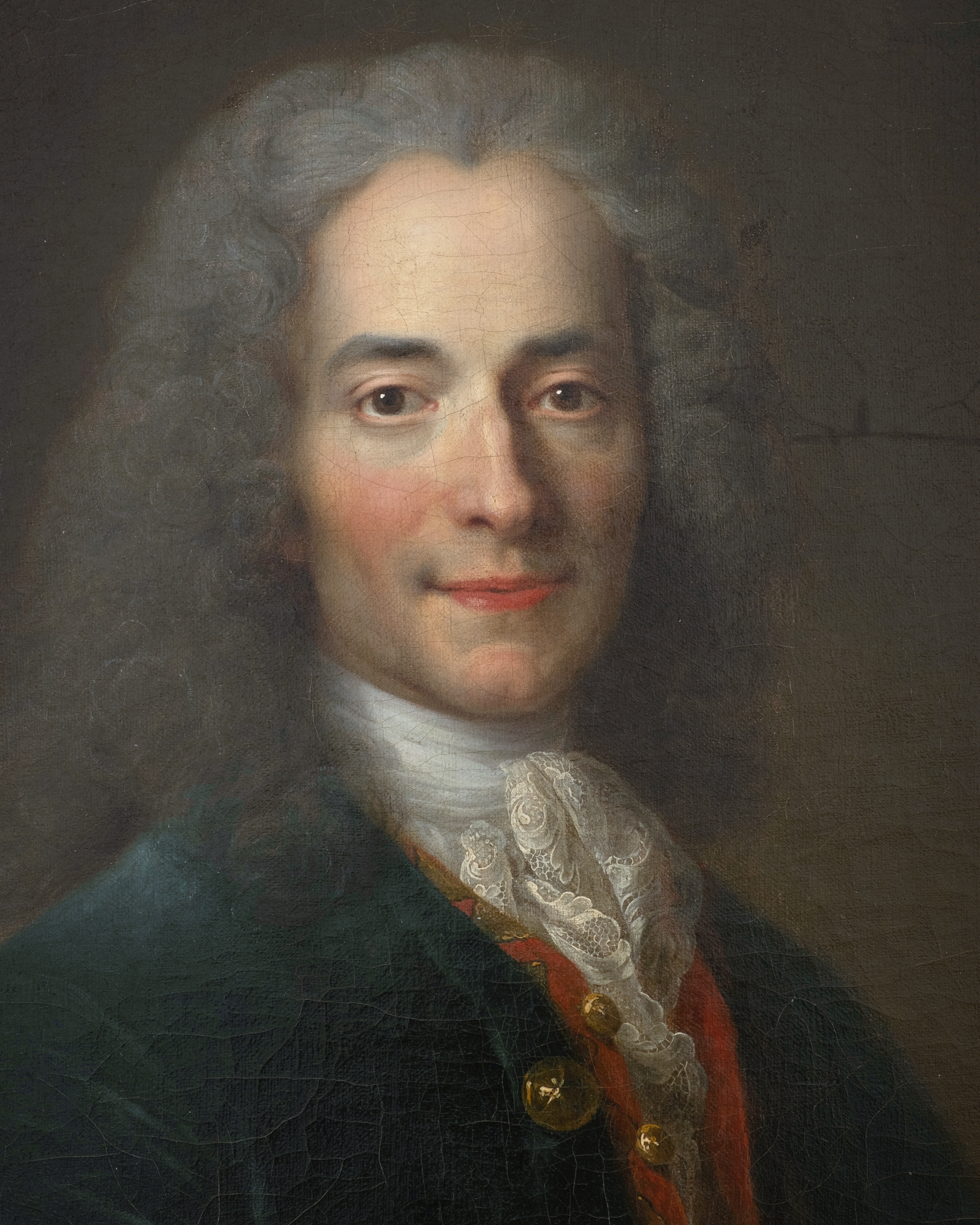 Depicted person: Voltaire – French writer, historian, and philosopher